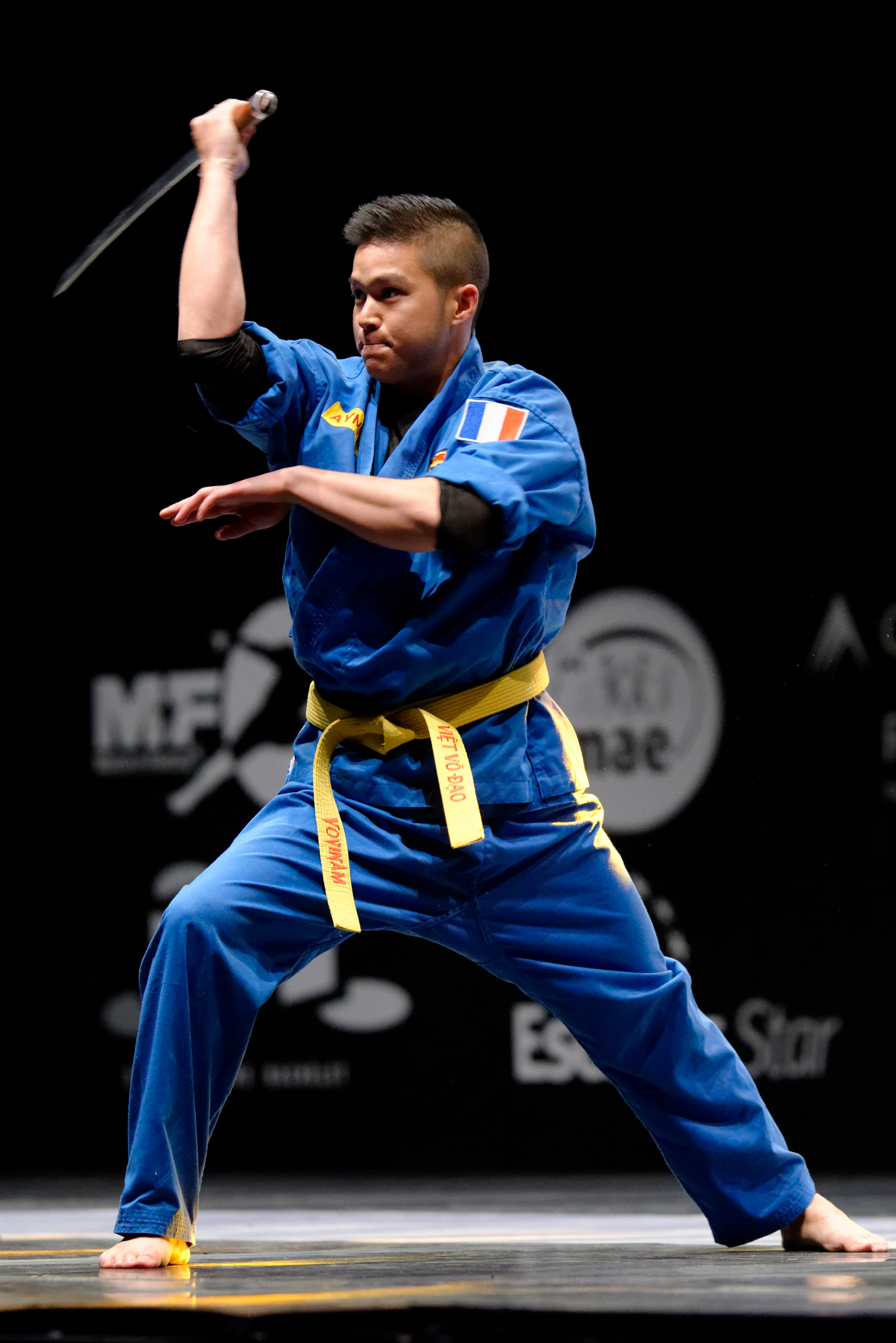 Vovinam demonstration at the 2014 Master de Fleuret Melun Val de Seine.